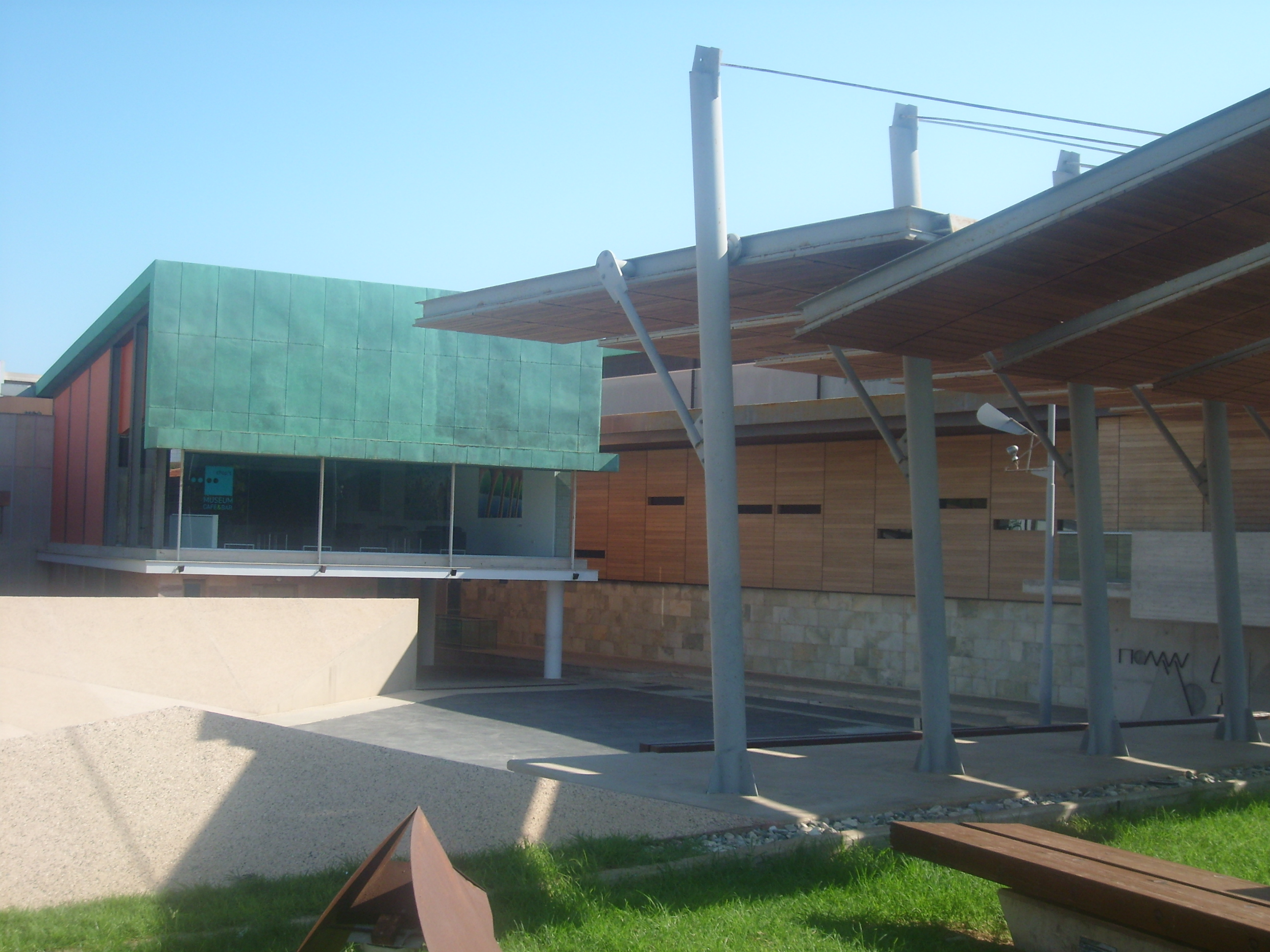 Thalassa Museum in Agia Napa, Cyprus